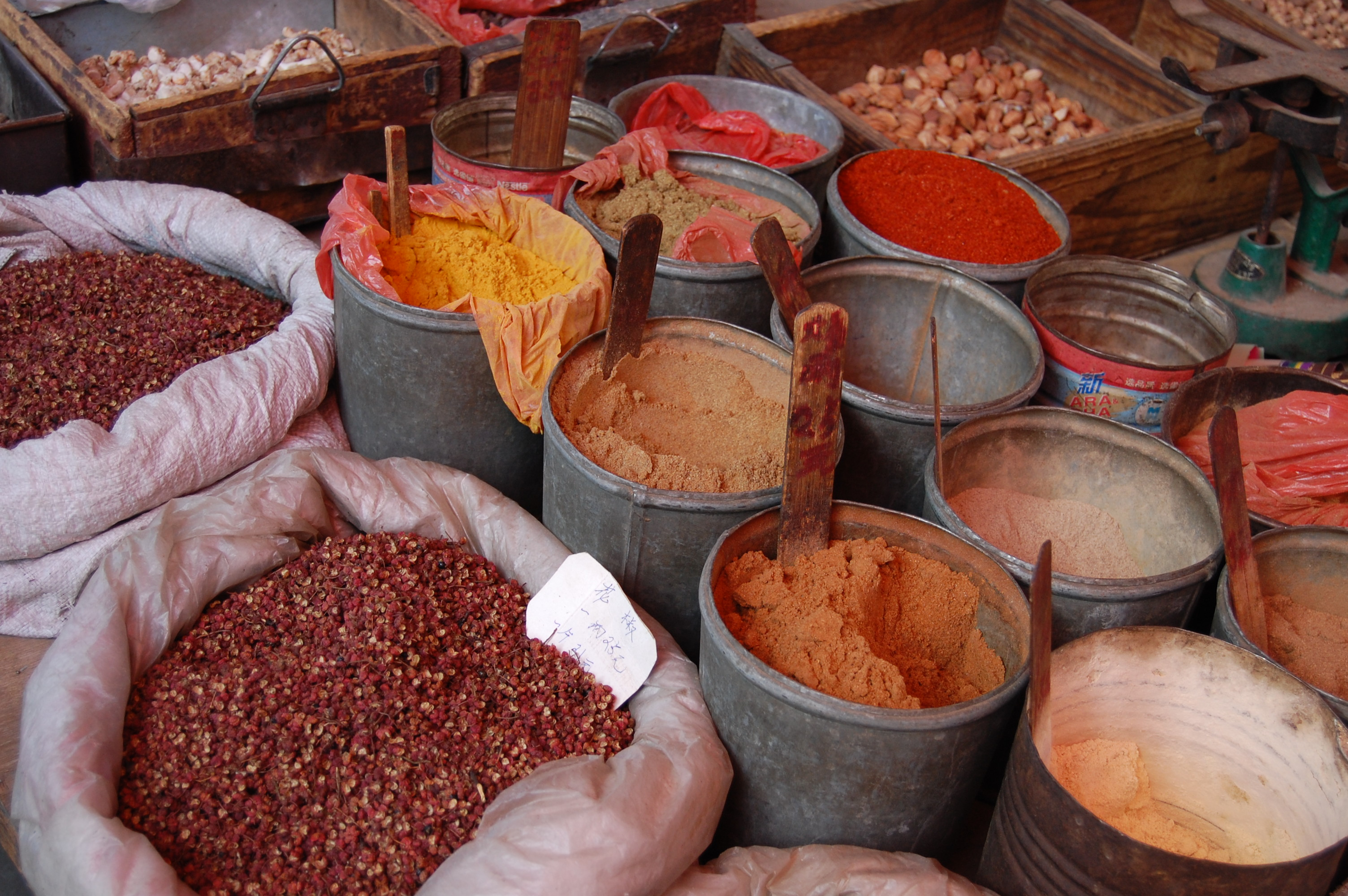 Spices in Jiayuguan, China